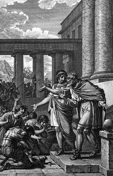 Jean-Michel Moreau le Jeune 1741-1814 Telemon and Aeacus